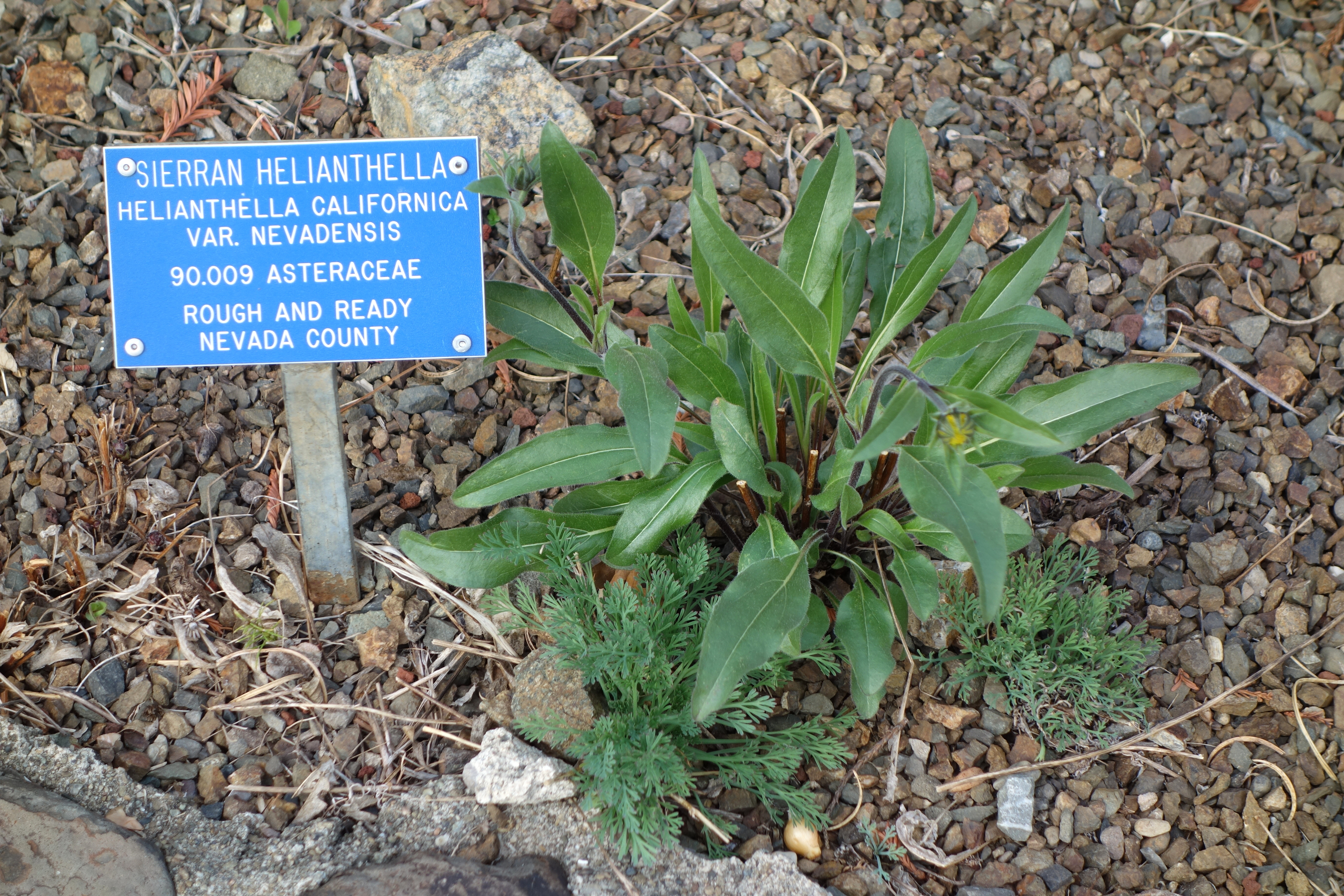 Botanical specimen in the Regional Parks Botanic Garden, Berkeley, California, USA.